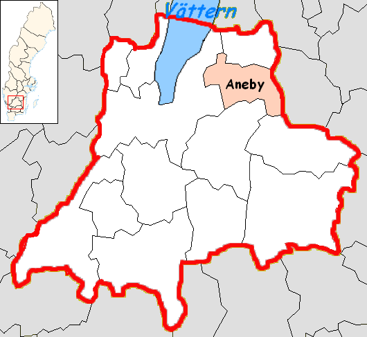 Aneby Municipality in Jönköping County, Sweden Designd by me, based on Image:Jönköping County.png